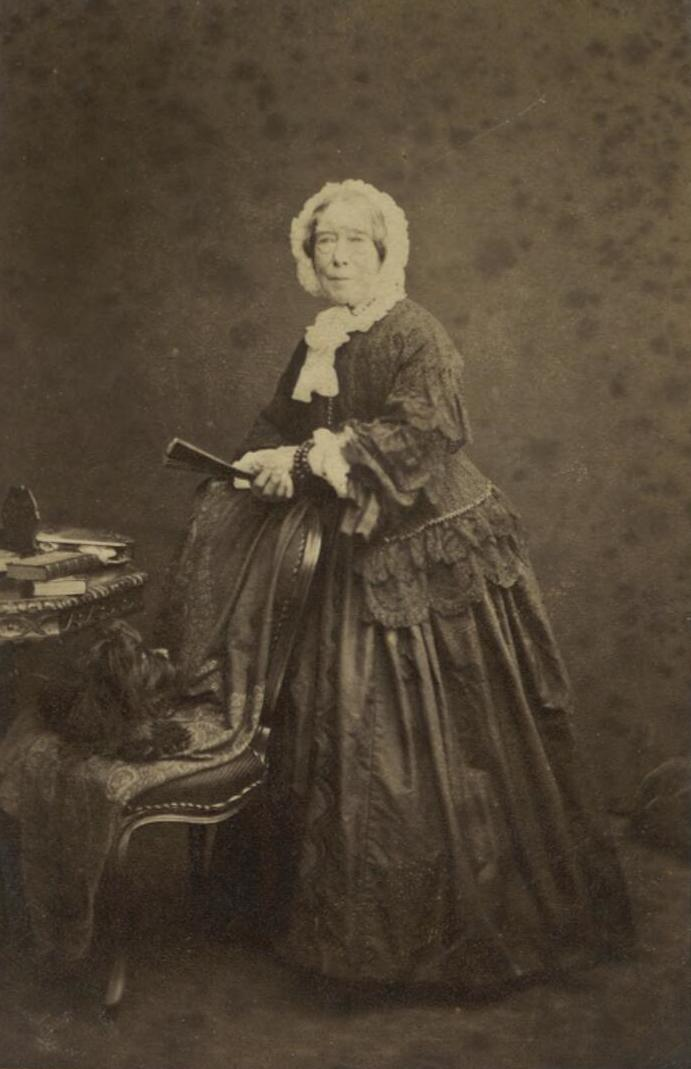 A portrait from the Welsh Portrait Collection at the National Library of Wales. Depicted person: Angharad Llwyd – British antiquarian